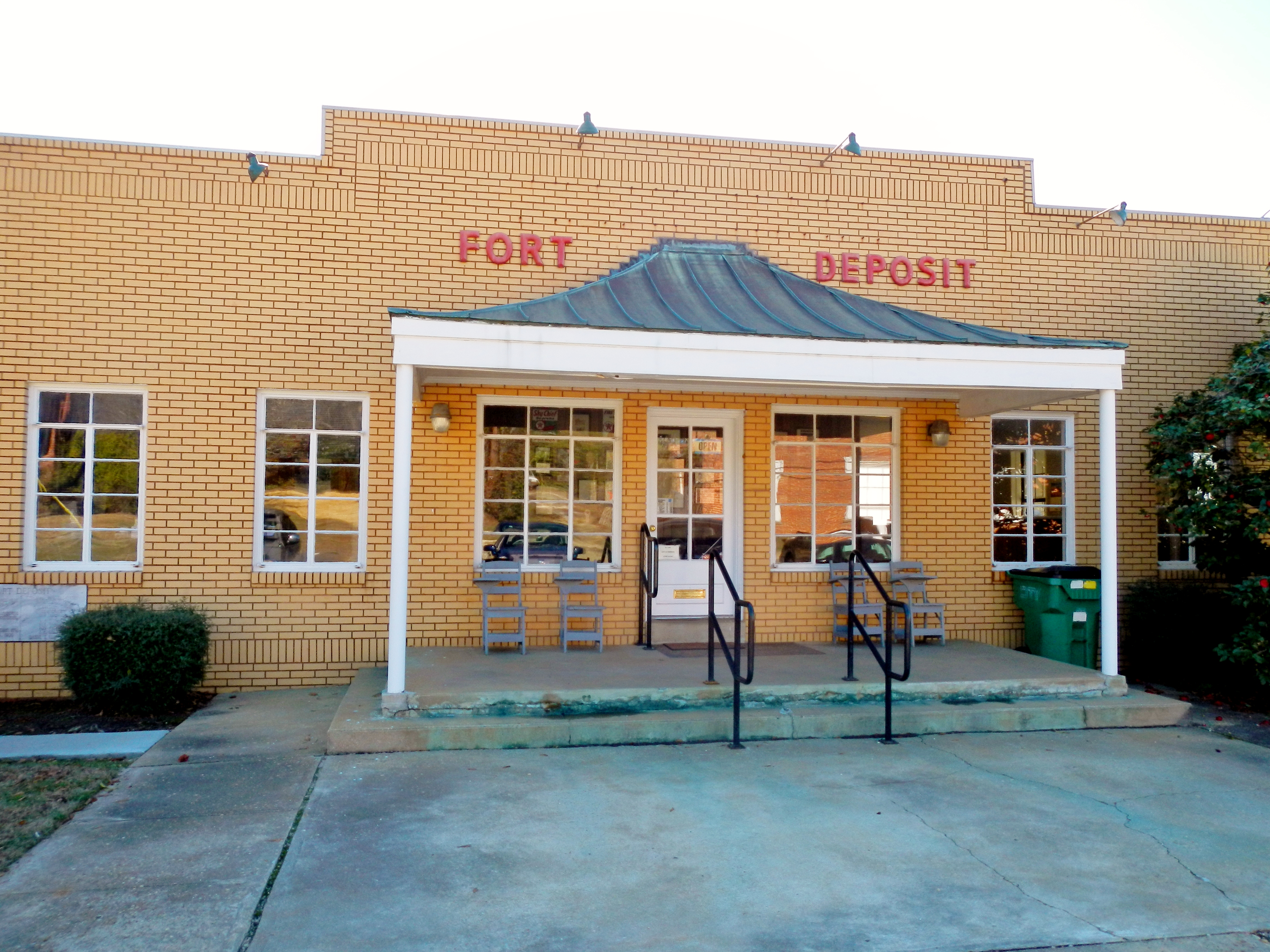 This is a photograph of the city hall in Fort Deposit, Alabama.